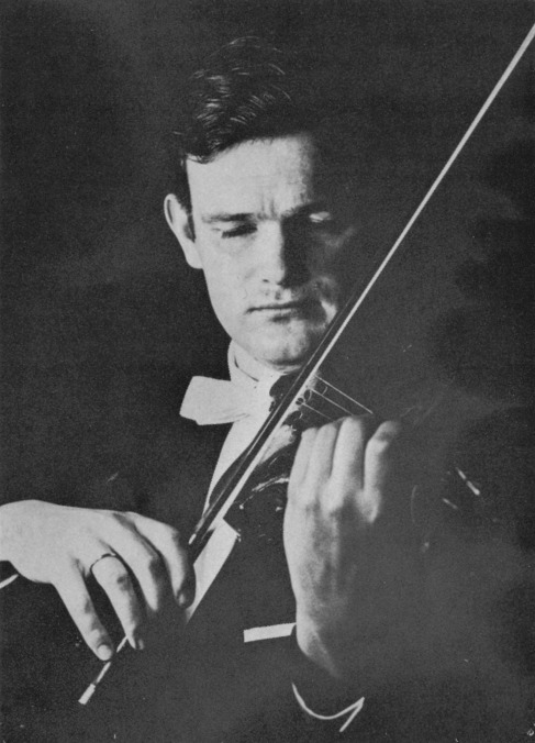 Photograph of the Finnish violinist Paavo Pohjola (1934–).